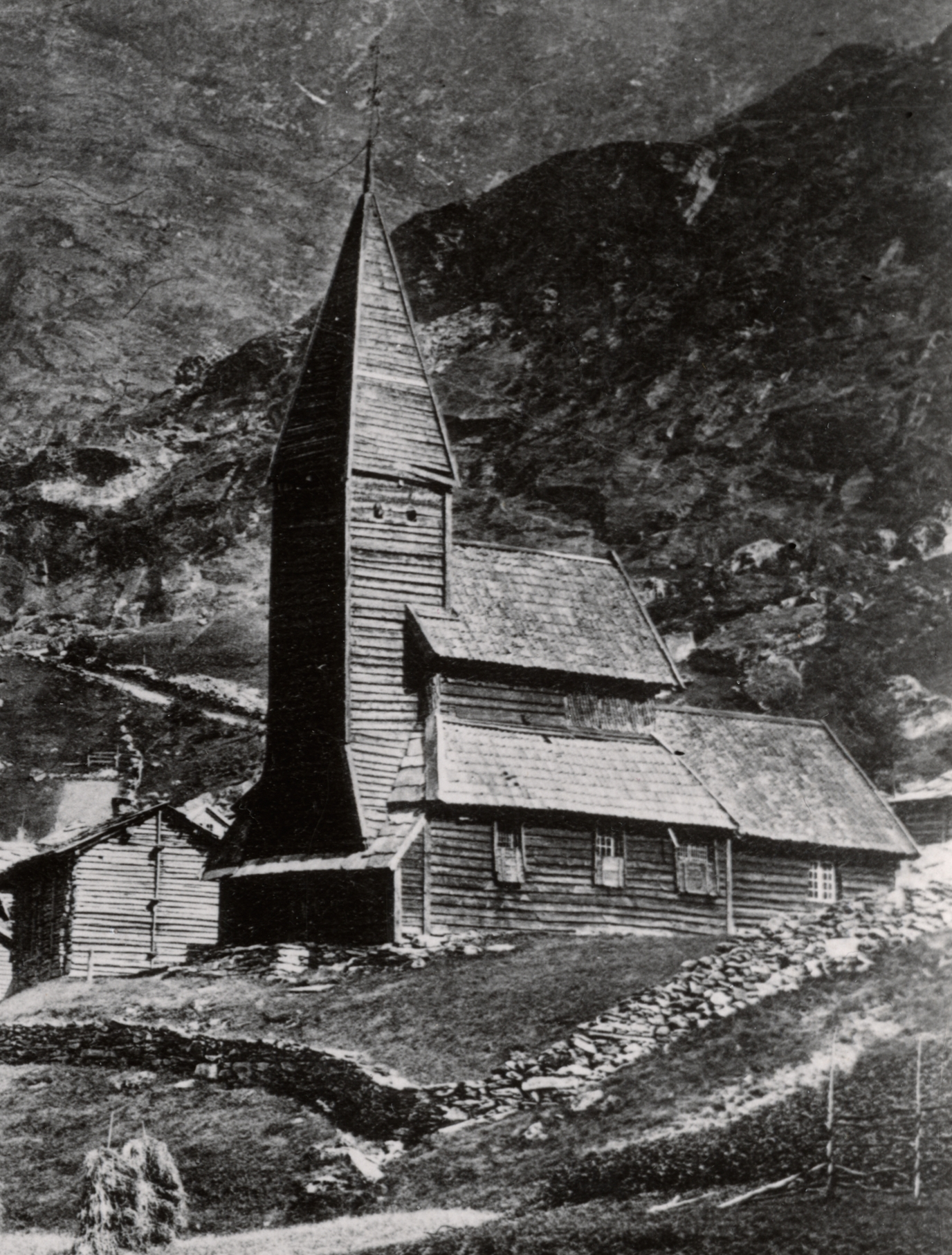 This is a photo of the Fantoft stave church before it was moved to Bergen and became famous. The church was rebuilt in Bergen in 1883 and the picture is taken in 1873 before it was moved. The image is used on the page Stavkirke#Historie.